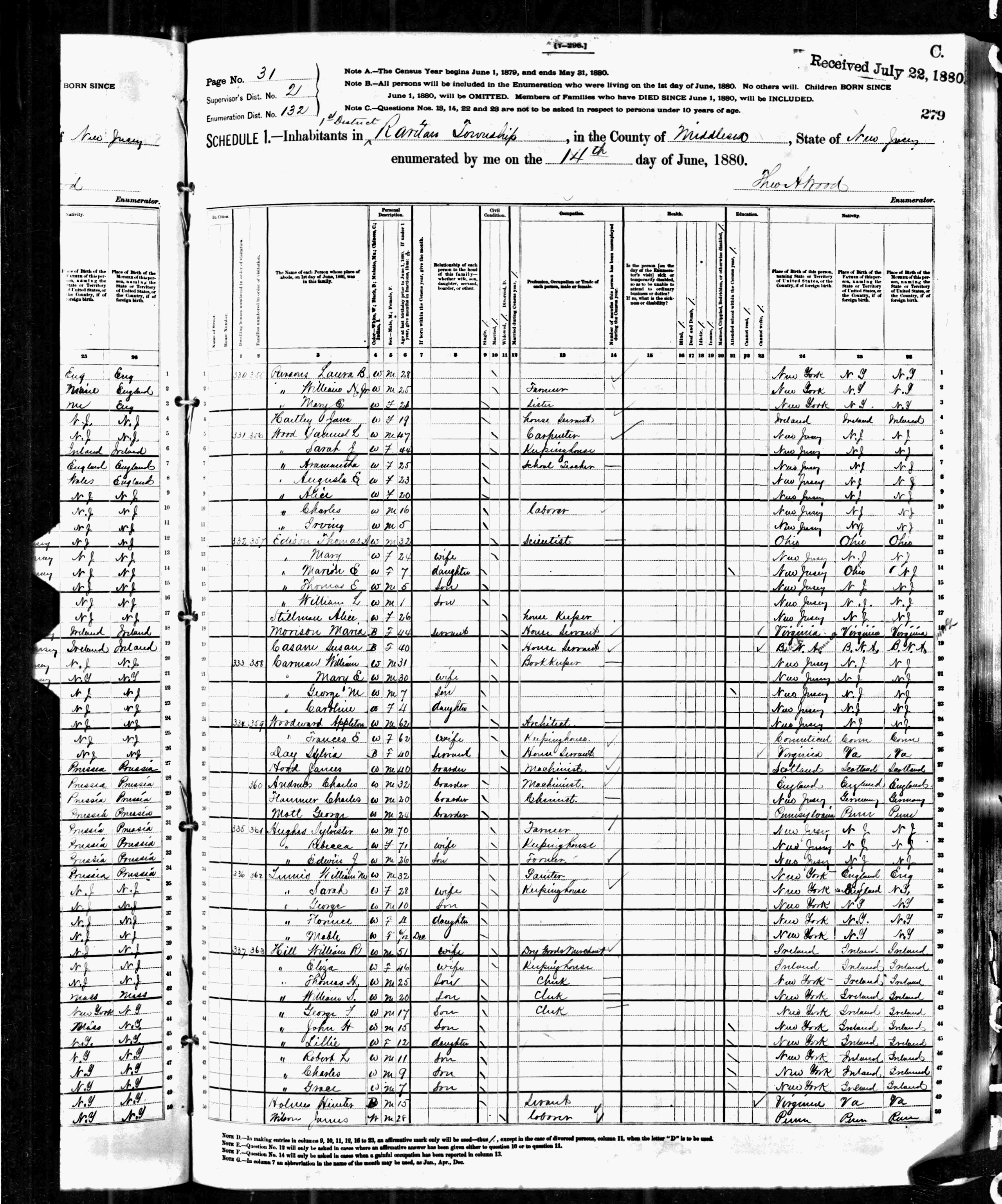 Thomas Edison in East Brunswick in the 1880 US Census.